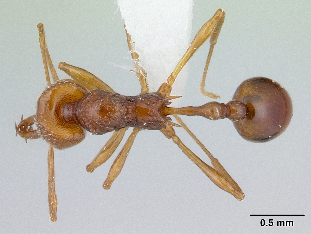 Dorsal view of ant Acanthognathus ocellatus specimen casent0178718.